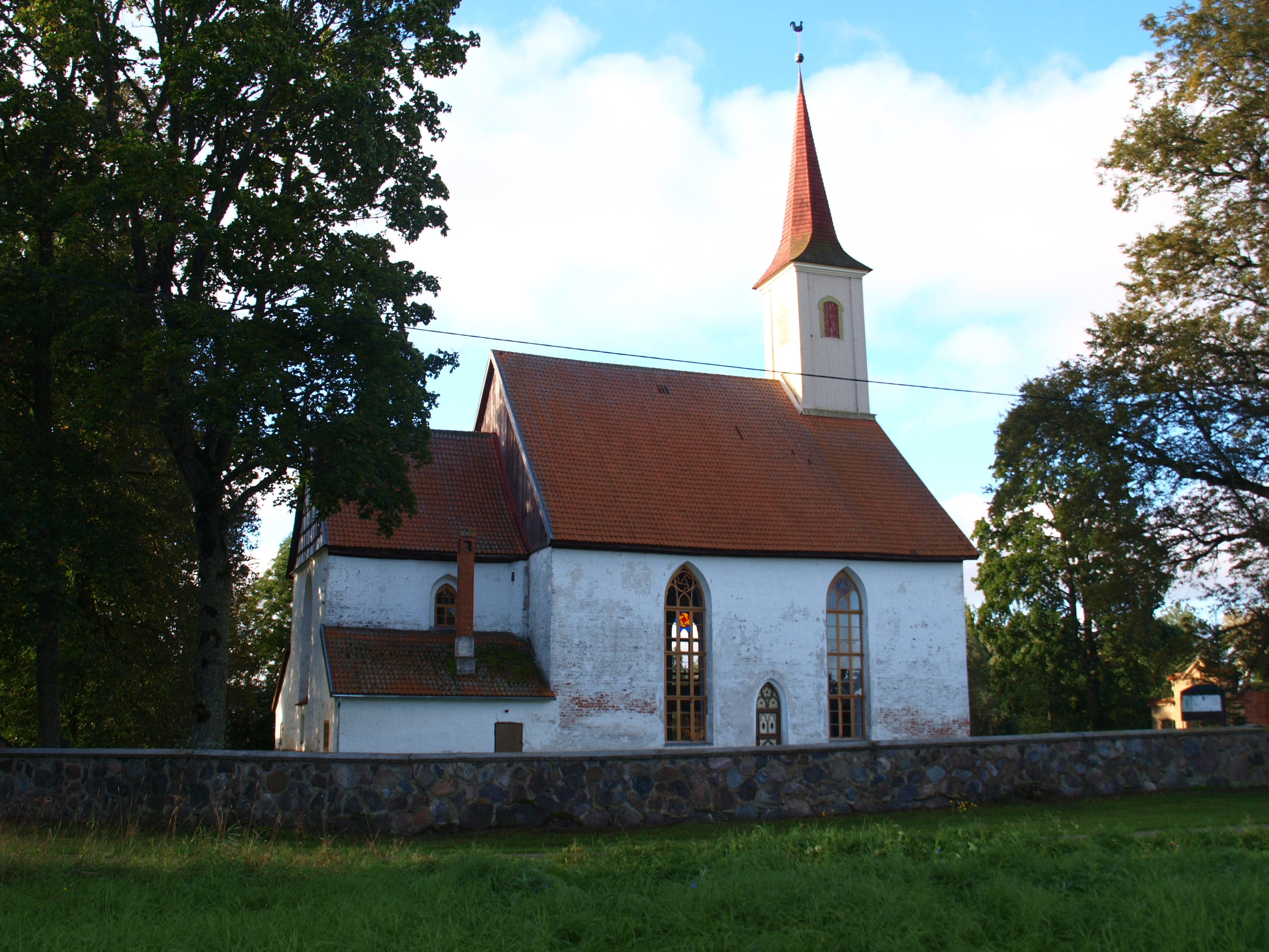 Saint Martin church in Rannu, Estonia. Built in 15th century. Was badly damaged in wars at the end of 17th century. Building was modified in 1835 and again in 1876. Tower stands 33 meters (108 ft) tall.